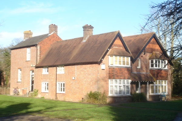 37 Langley Lane, Langley Green, Borough of Crawley, West Sussex, England: a 17th-century timber-framed house with a 19th-century extension. Listed at Grade II by English Heritage (IoE code 363374)